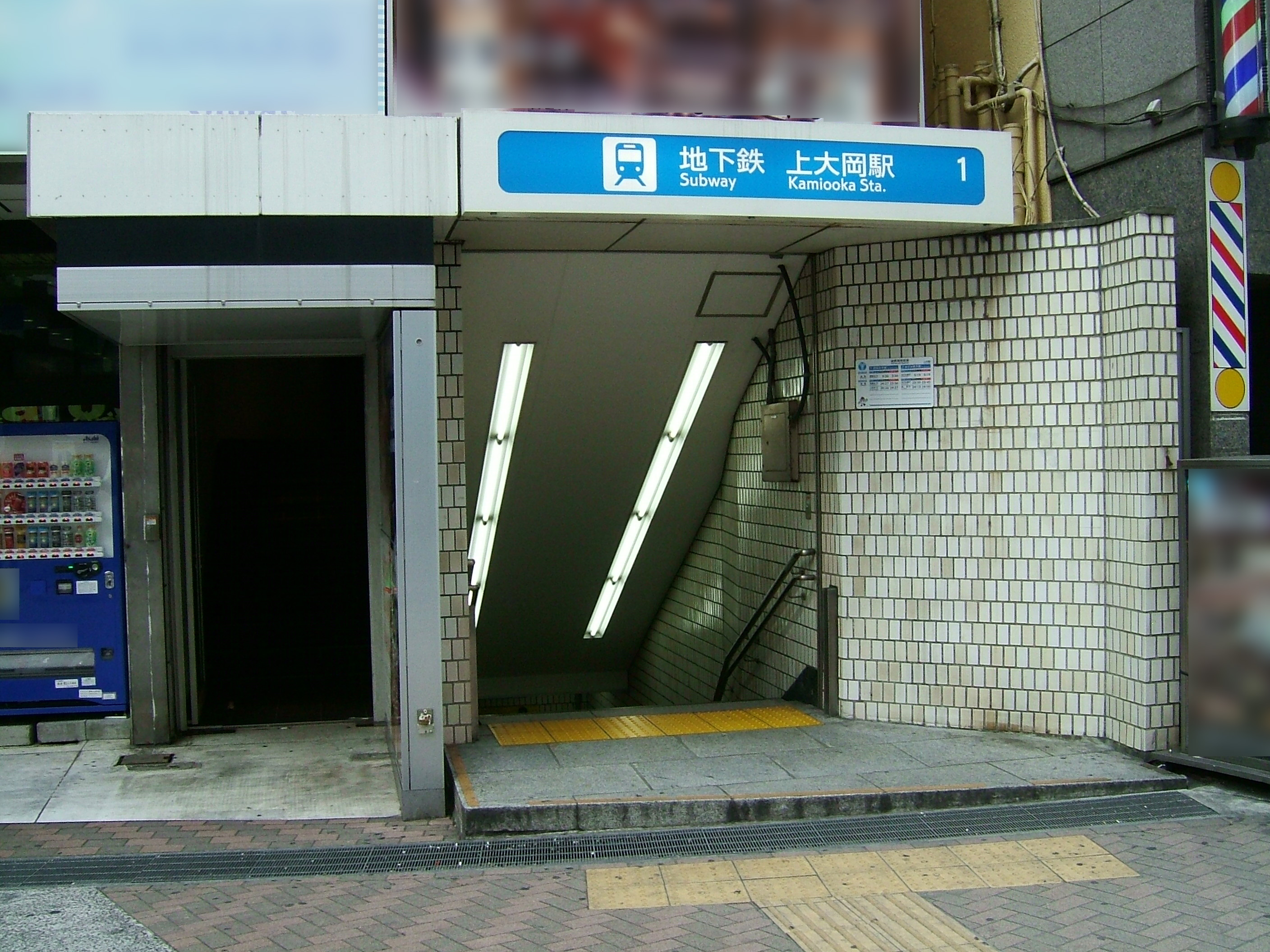 Kamiōoka Station no.1 entrance (Yokohama Municipal Subway Blue Line)